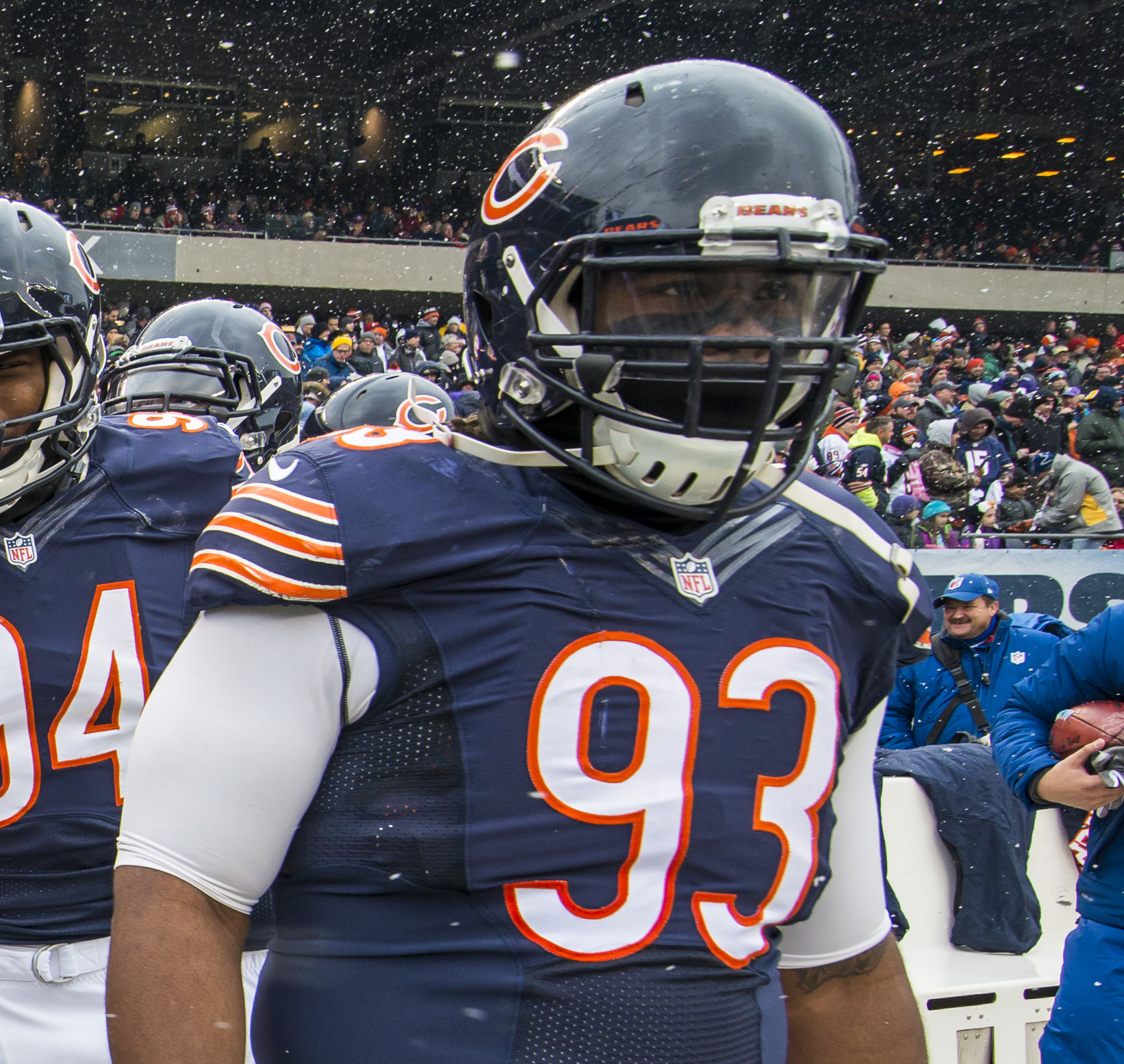 Chicago Bears defensive tackle, Will Sutton, in a game against the Minnesota Vikings on November 16, 2014.